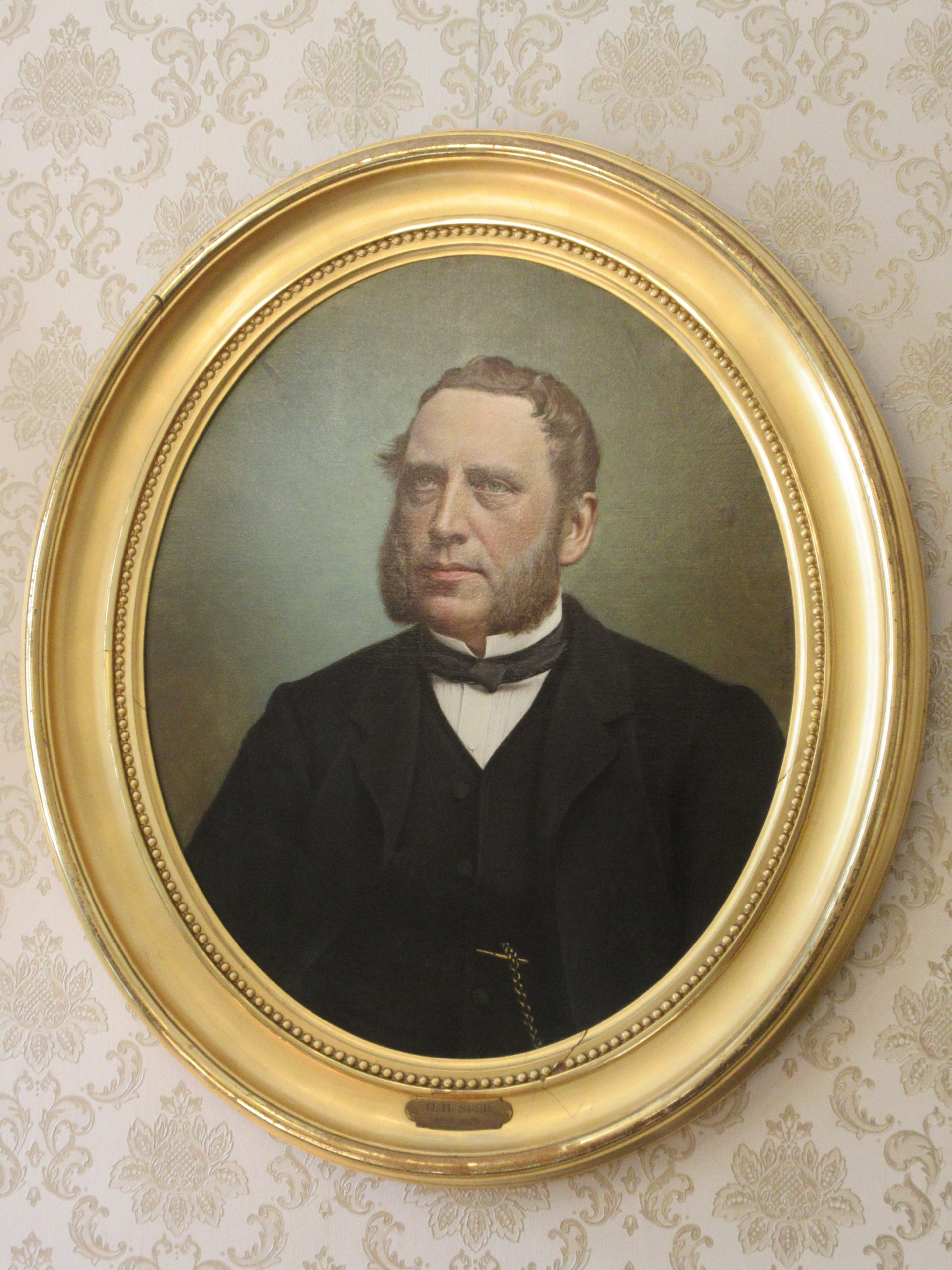 Paintings of O. B. Suhr in Heerings Gård in Copenhagen, Denmark